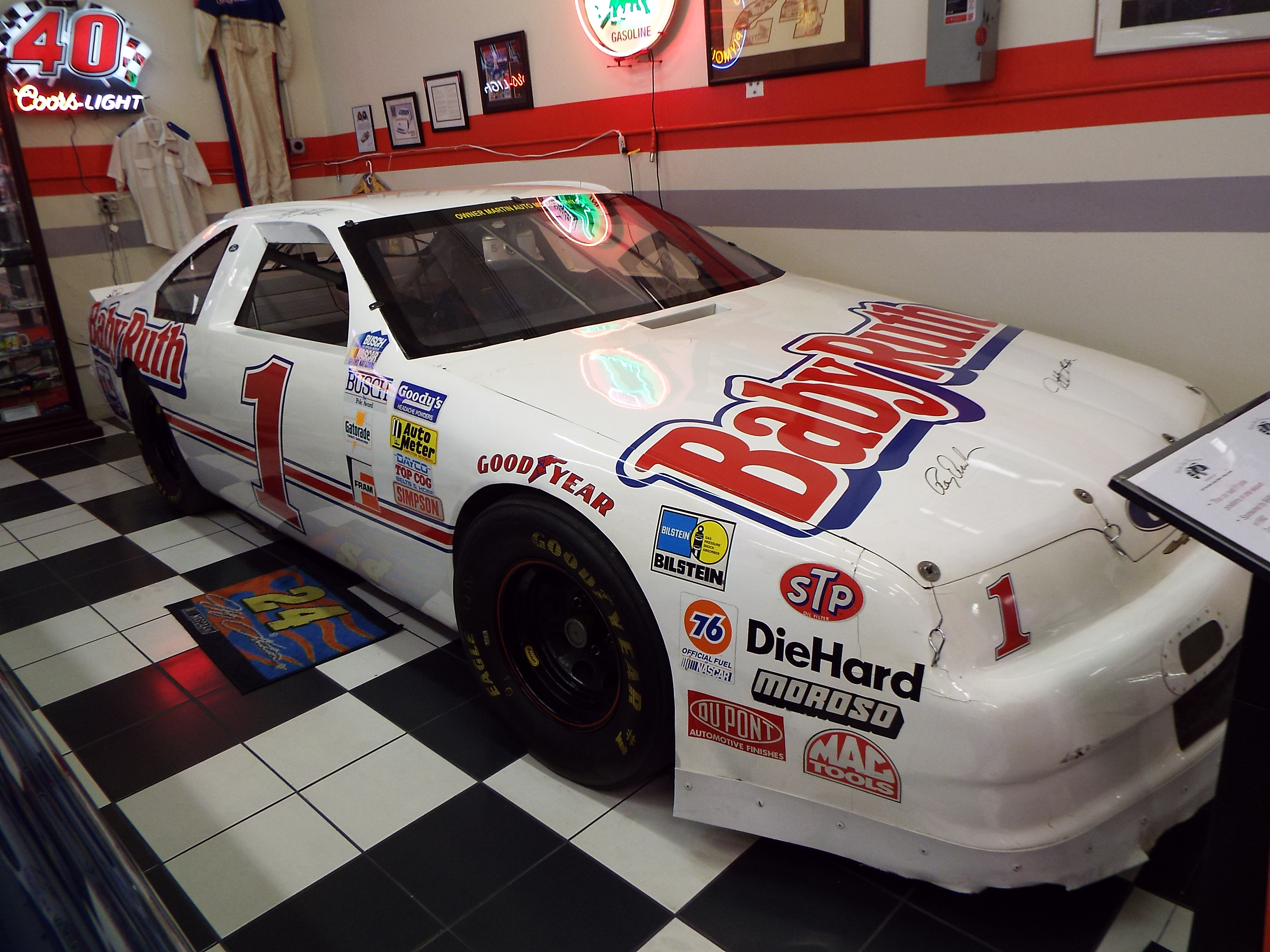 Martin Auto Museum-1990 Jeff Godon's Ford NASCAR Race Car